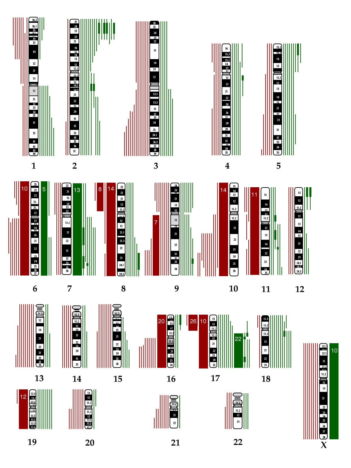 Summary of Comparative Genomic Hybridization. Ideogram showing genetic imbalances detected in 71 medulloblastoma by comparative genomic hybridization (CGH). Red bars on the left of the chromosomes represent losses and green bars on the right correspond to gains of chromosomal regions in tumors; amplifications are depicted as bold green bars. Multiple cases with the same CNA are grouped as thick bars, with total number of cases displayed at the top.